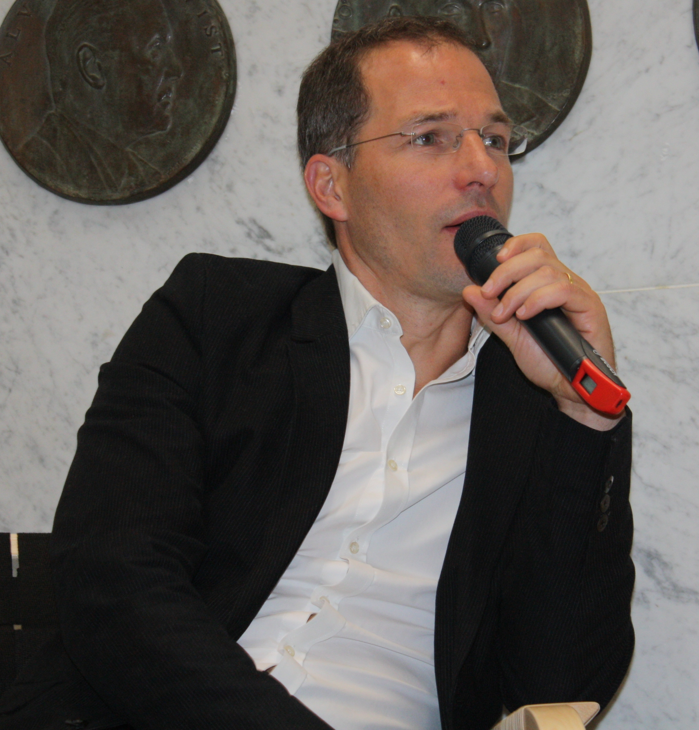 German writer Maxim Leo visited the bookstore Akateeminen kirjakauppa in Helsinki.